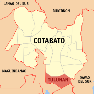 Map of the Cotabato showing the location of Tulunan